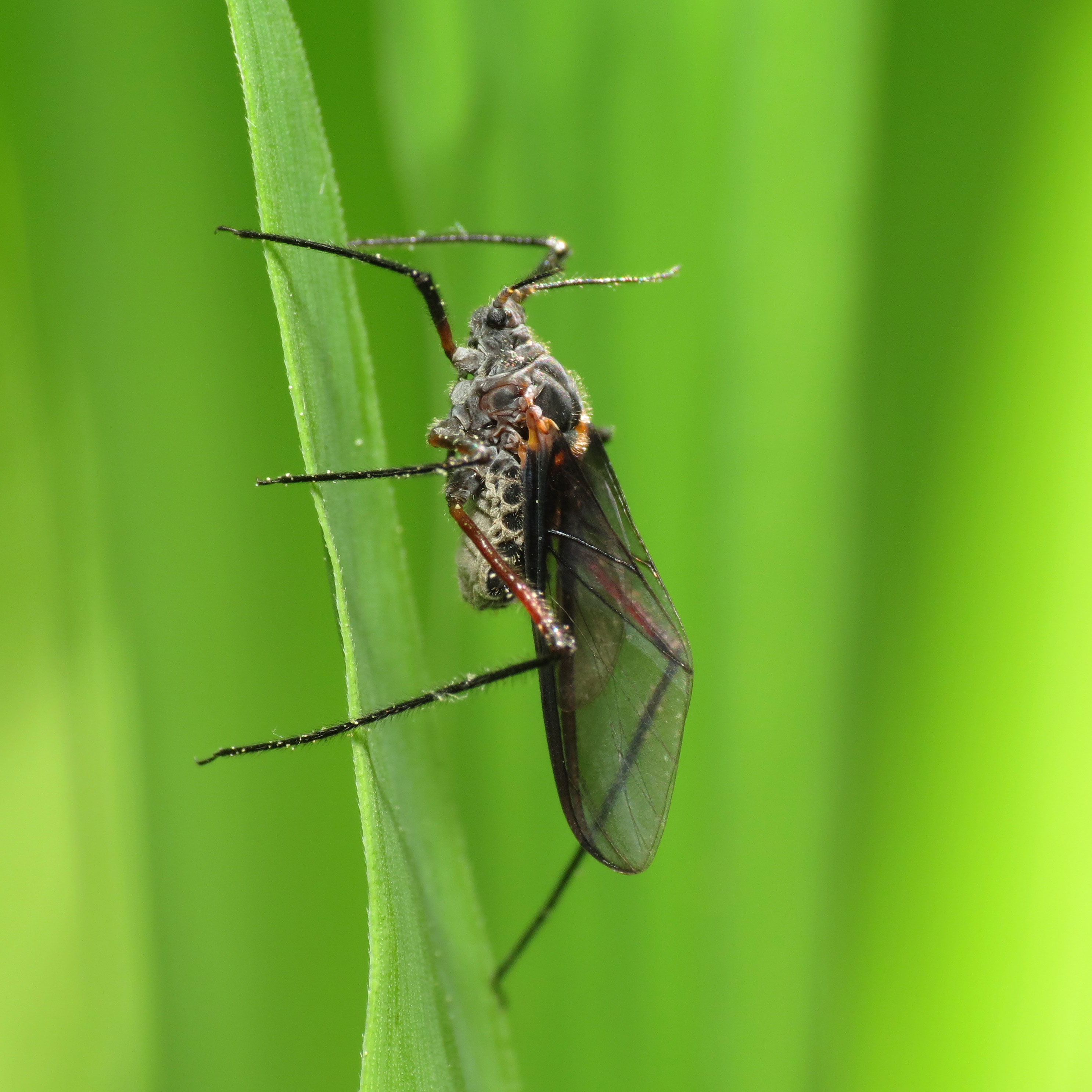 Longistigma caryae. Rock Creek Park, Washington, DC, USA. 31 May 2014.